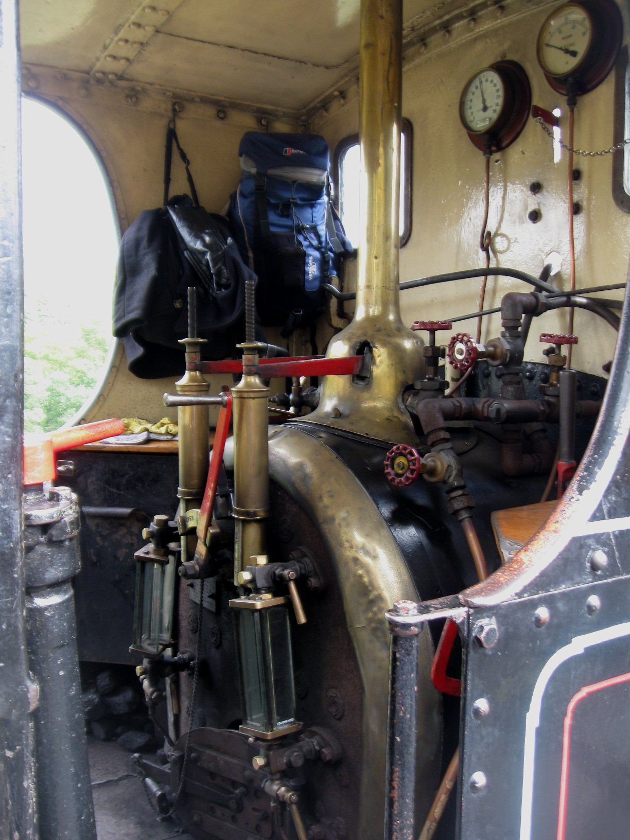 Cab of Quarry Hunslet 'Lilla'